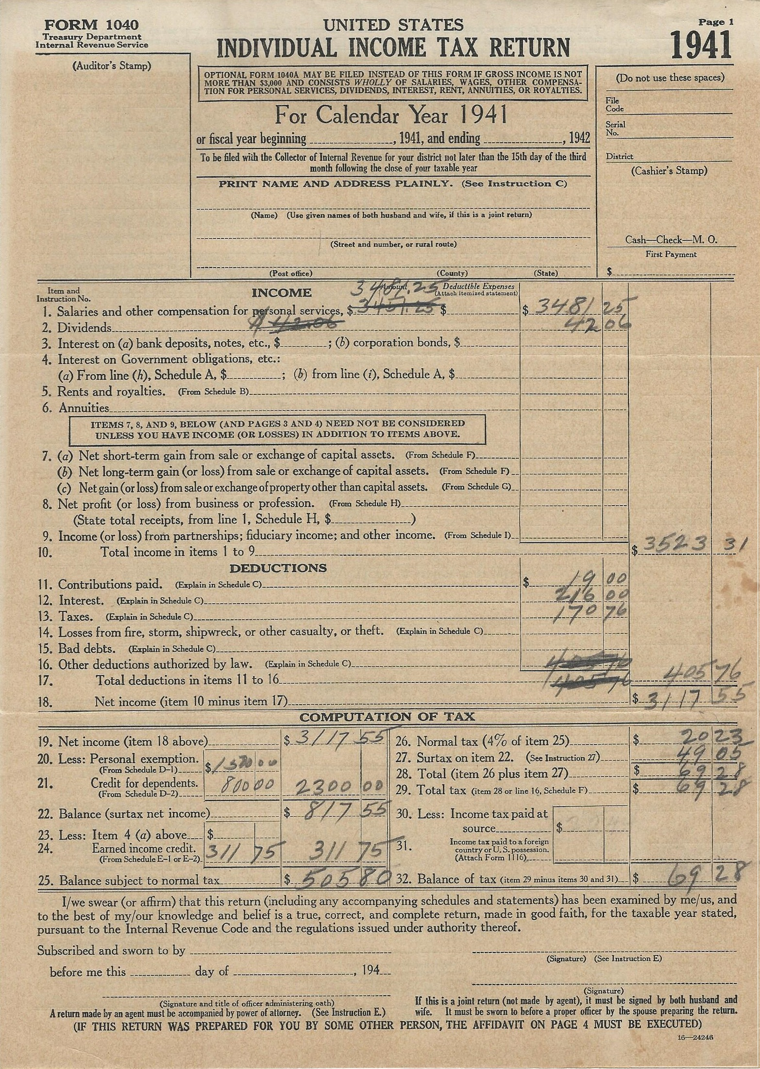 The first page of IRS Form 1040 for tax year 1941. Parts of the form have been filled out in pencil by a taxpayer in Missouri as a draft for the submitted copy of the form.